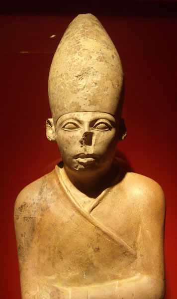 Statue of the Egyptian king Khasekhem, Oxford, Ashmolean Museum